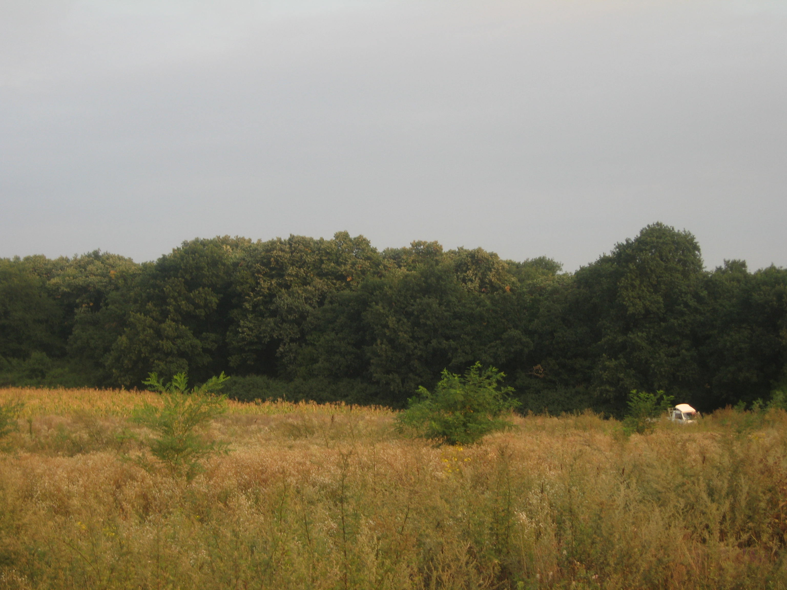 Rezervaţia Pădurea Uricani